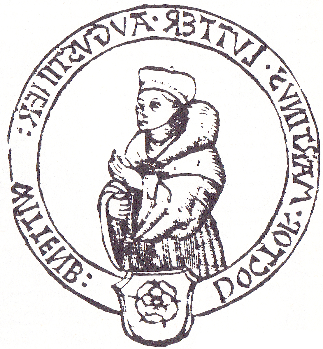 The oldest image of Luther from 1519.